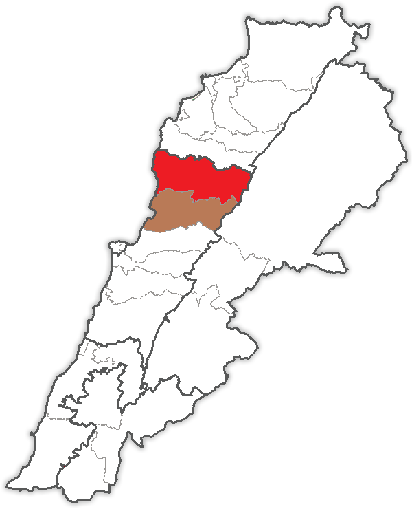 electoral district (2017 Election Law)